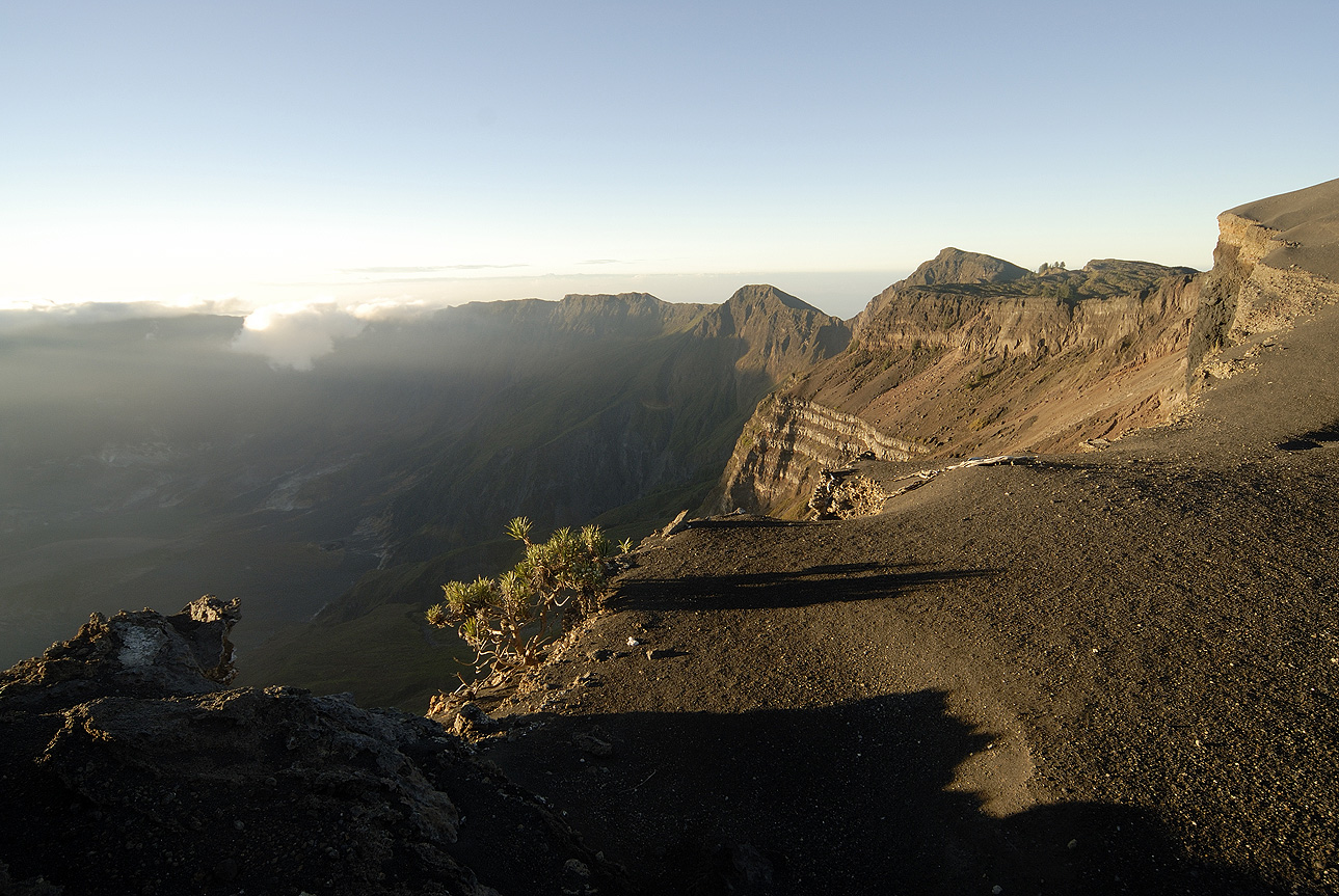 Tambora crater rim.